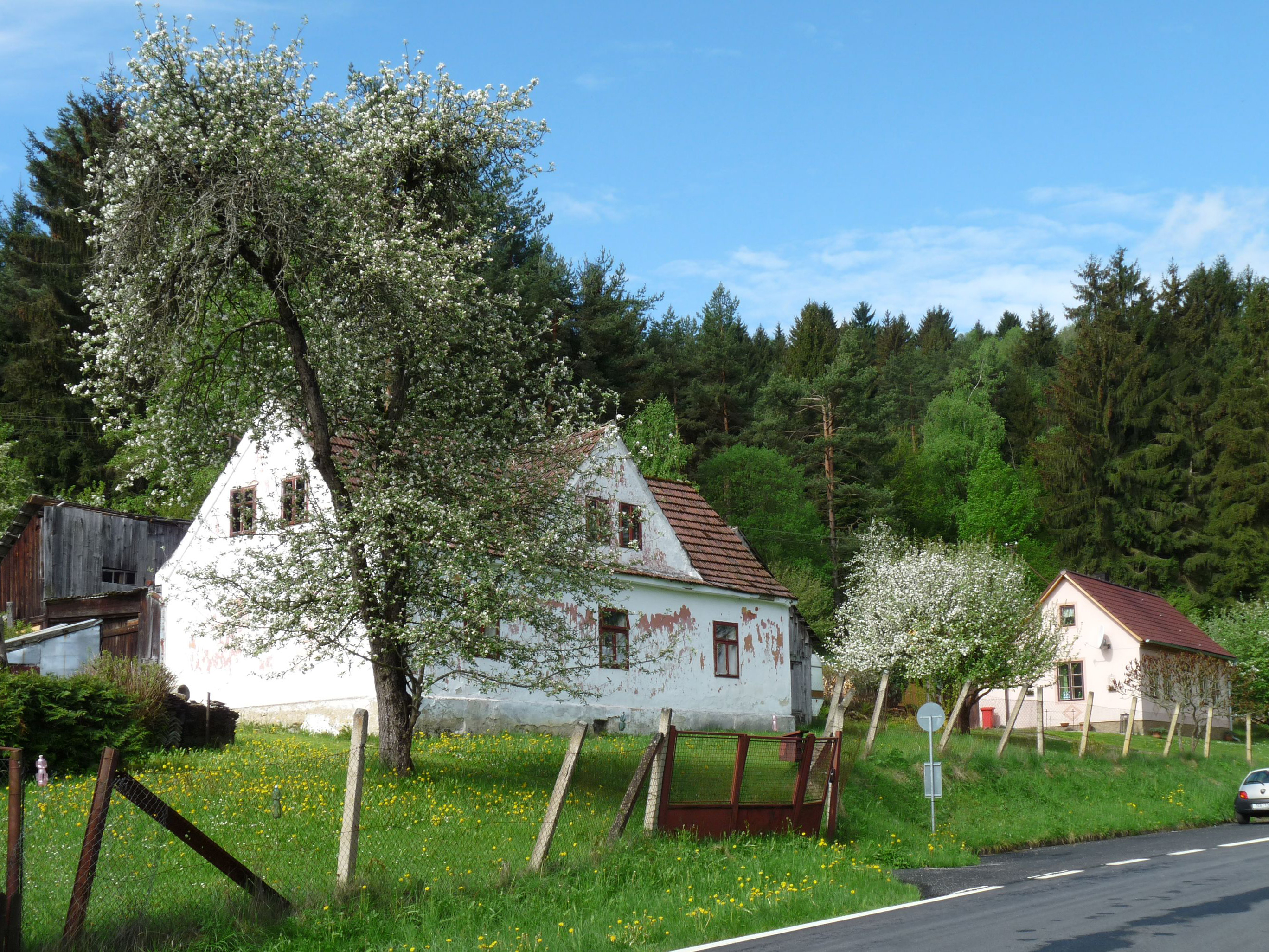 House No 29 in the village of Nahořany, Český Krumlov District, South Bohemian Region, Czech Republic.